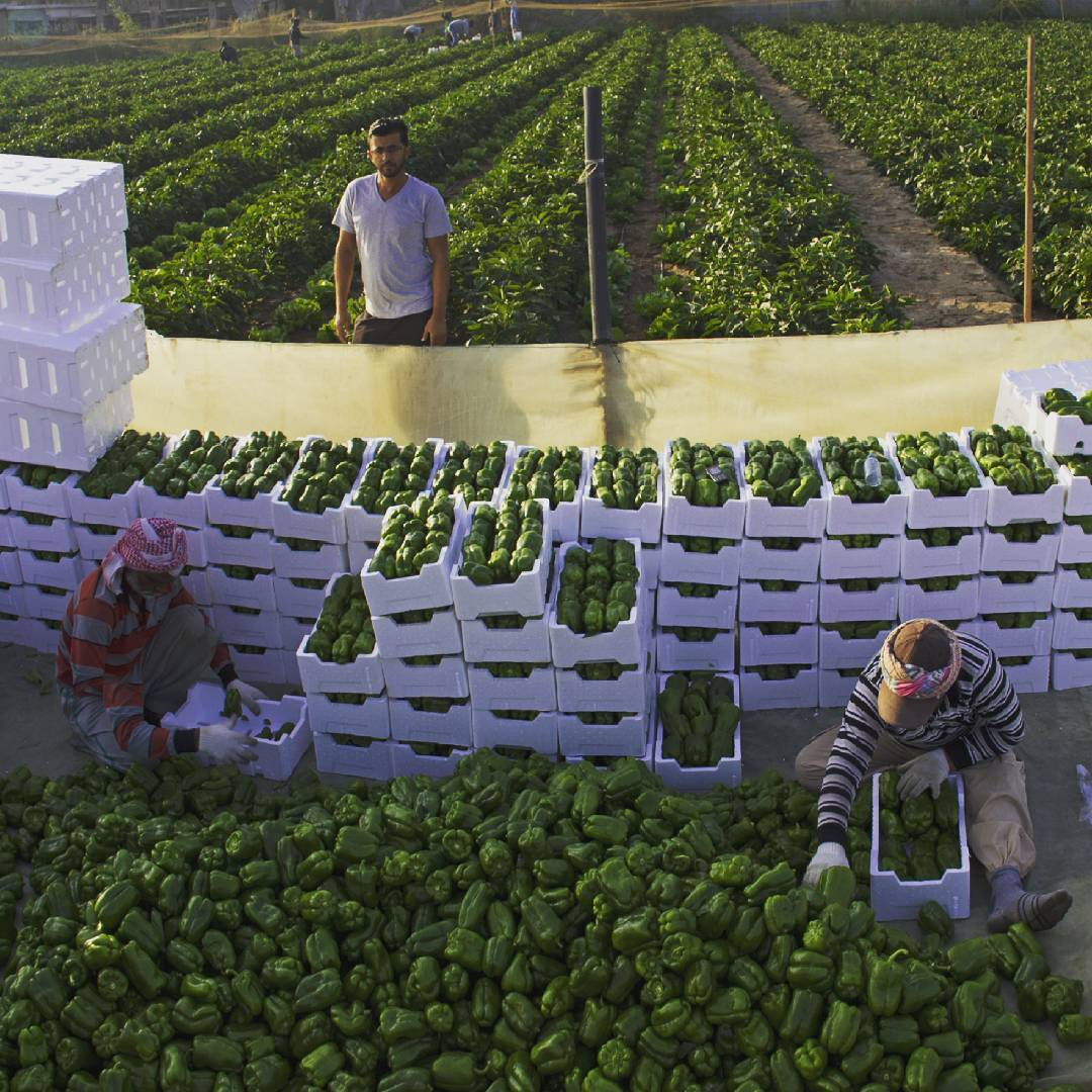 Collecting bell pepper, Qatif.